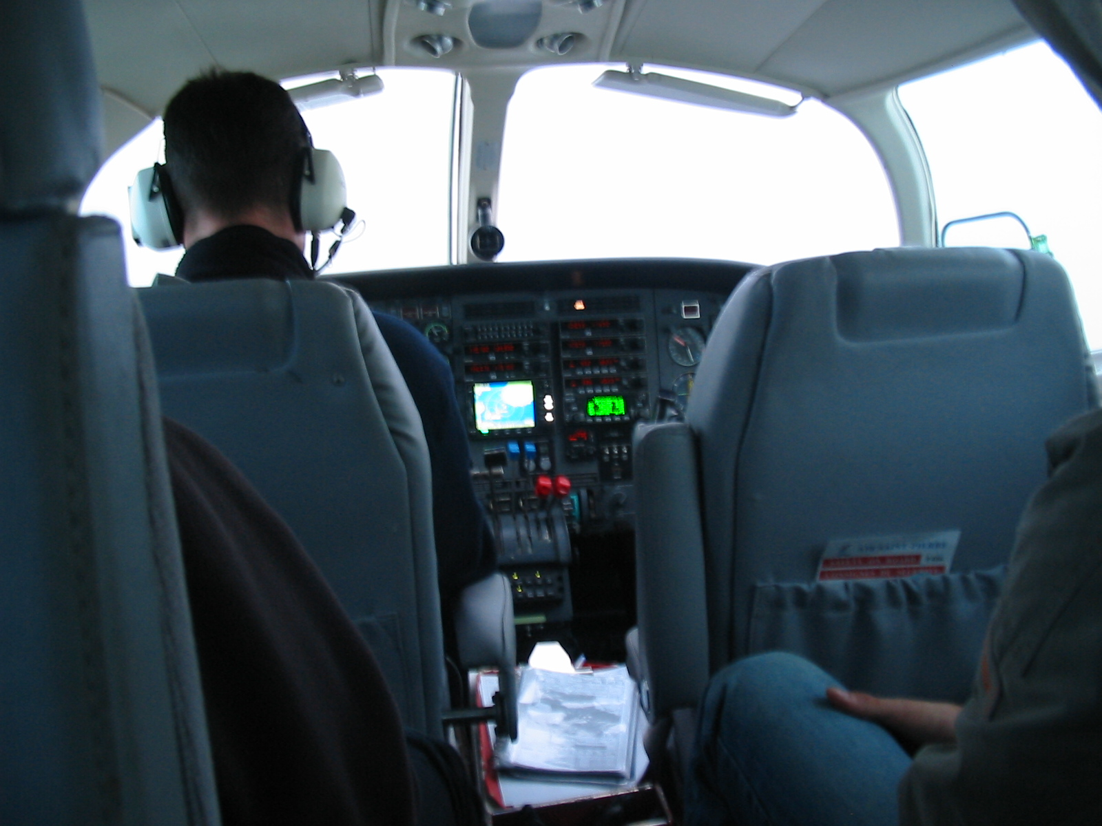 Cockpit of Air Saint-Pierre F406 in the air between Miquelon and Saint Pierre